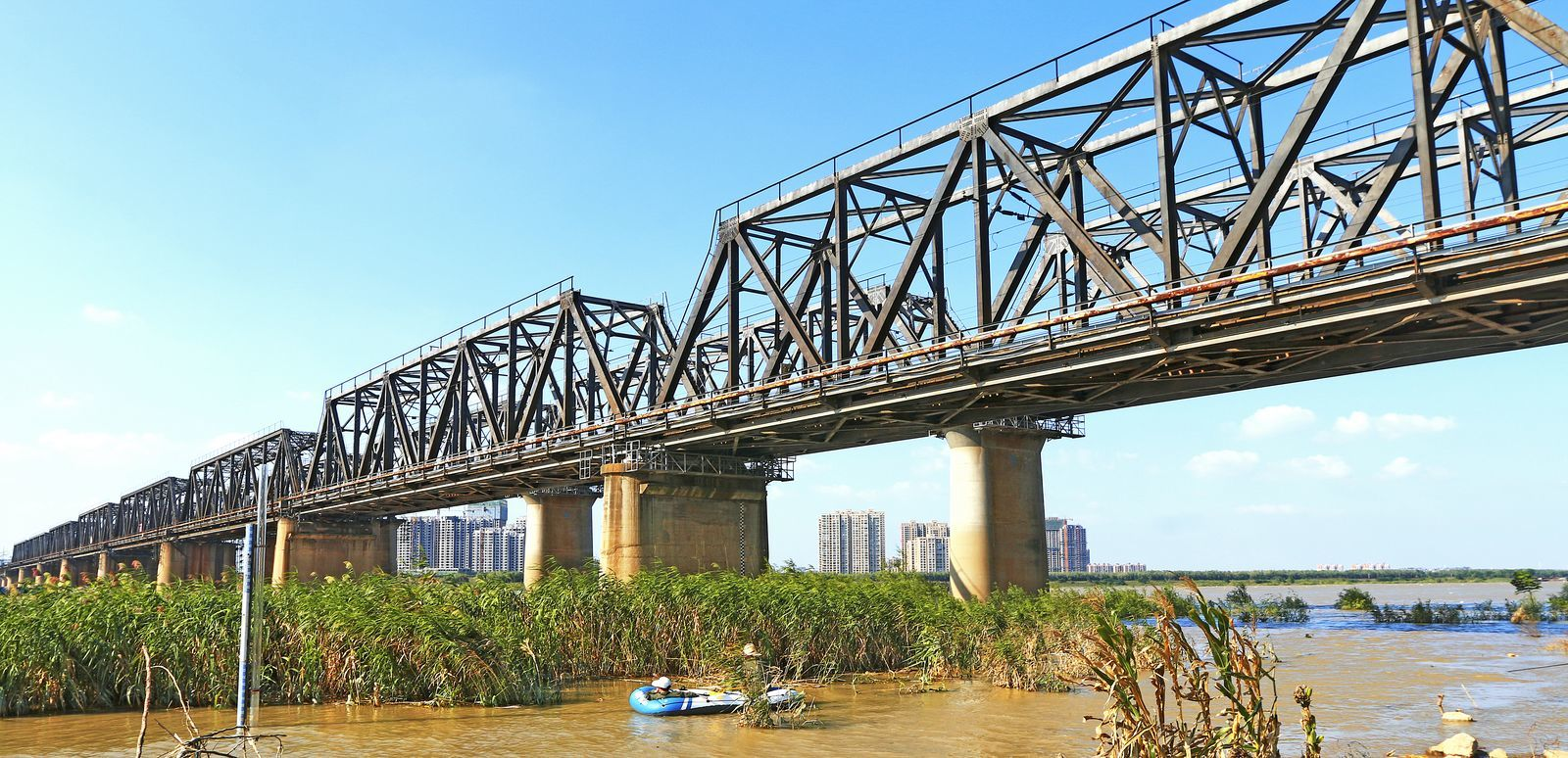 Bengbu Huaihe railway bridge is a railway bridge after the Yellow River Jinpu line second bridge. The bridge was established in September 1908. It was built in November 1909. It was built in May 15, 1911 and has not stood up until now. It is known as "the first bridge of Trinidad Huaihe".